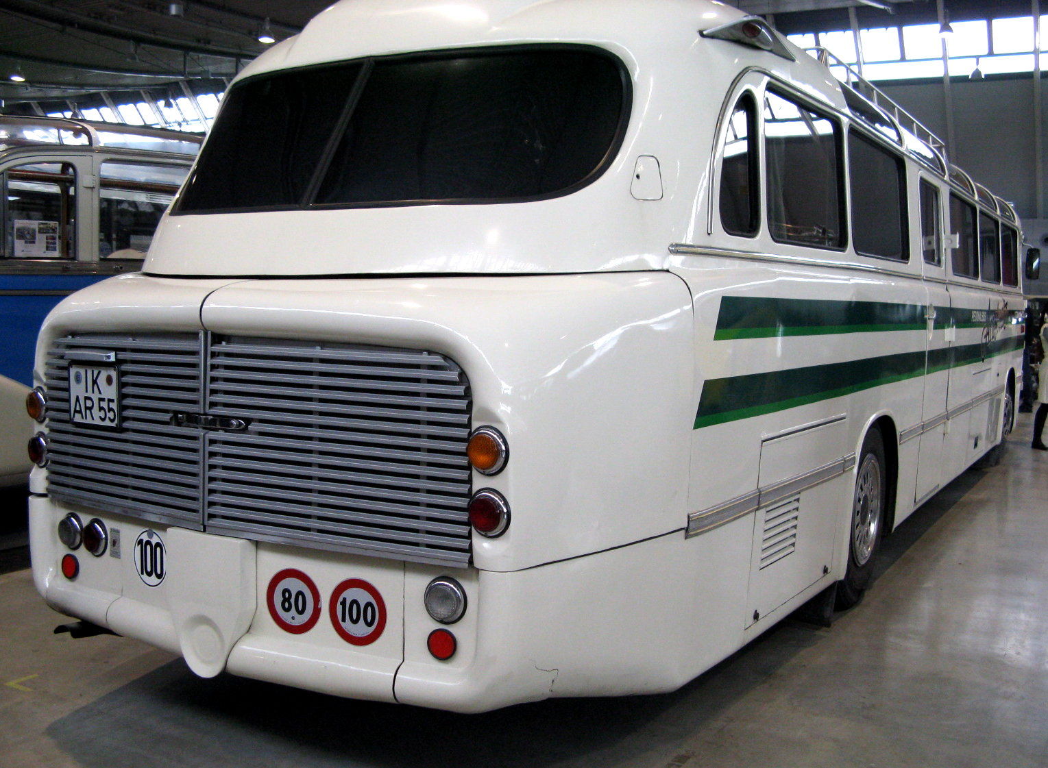 Ikarus 55 bus